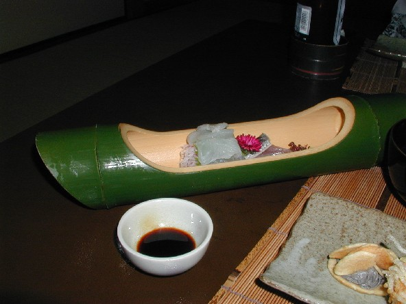 Sashimi; picture taken in a ryokan at Nara (Japan).